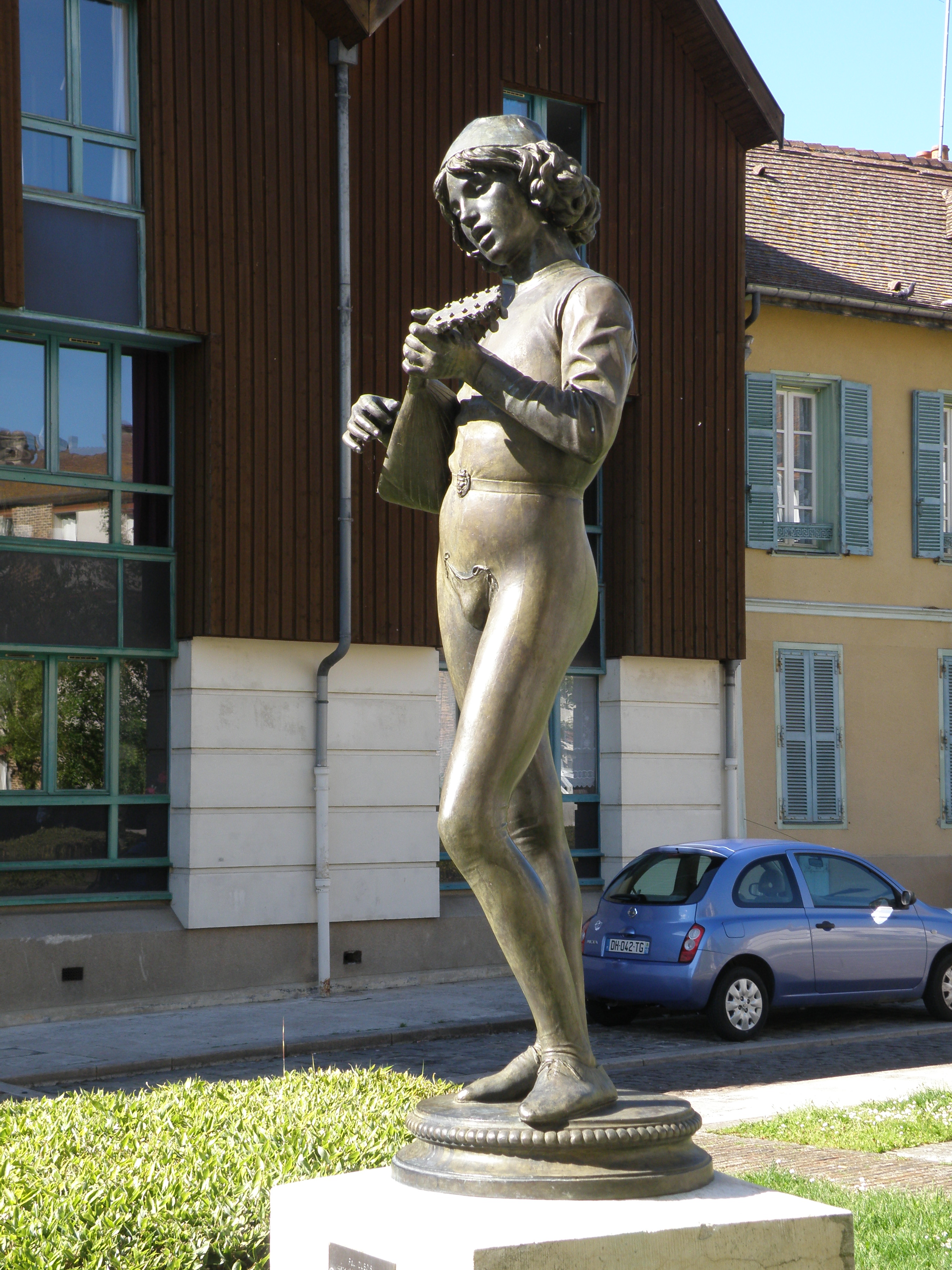 Le chanteur florentin. Bronze de Paul Dubois (1829, Nogent-sur-Seine-1905, Paris), place Saint-Nizier à Troyes (10).